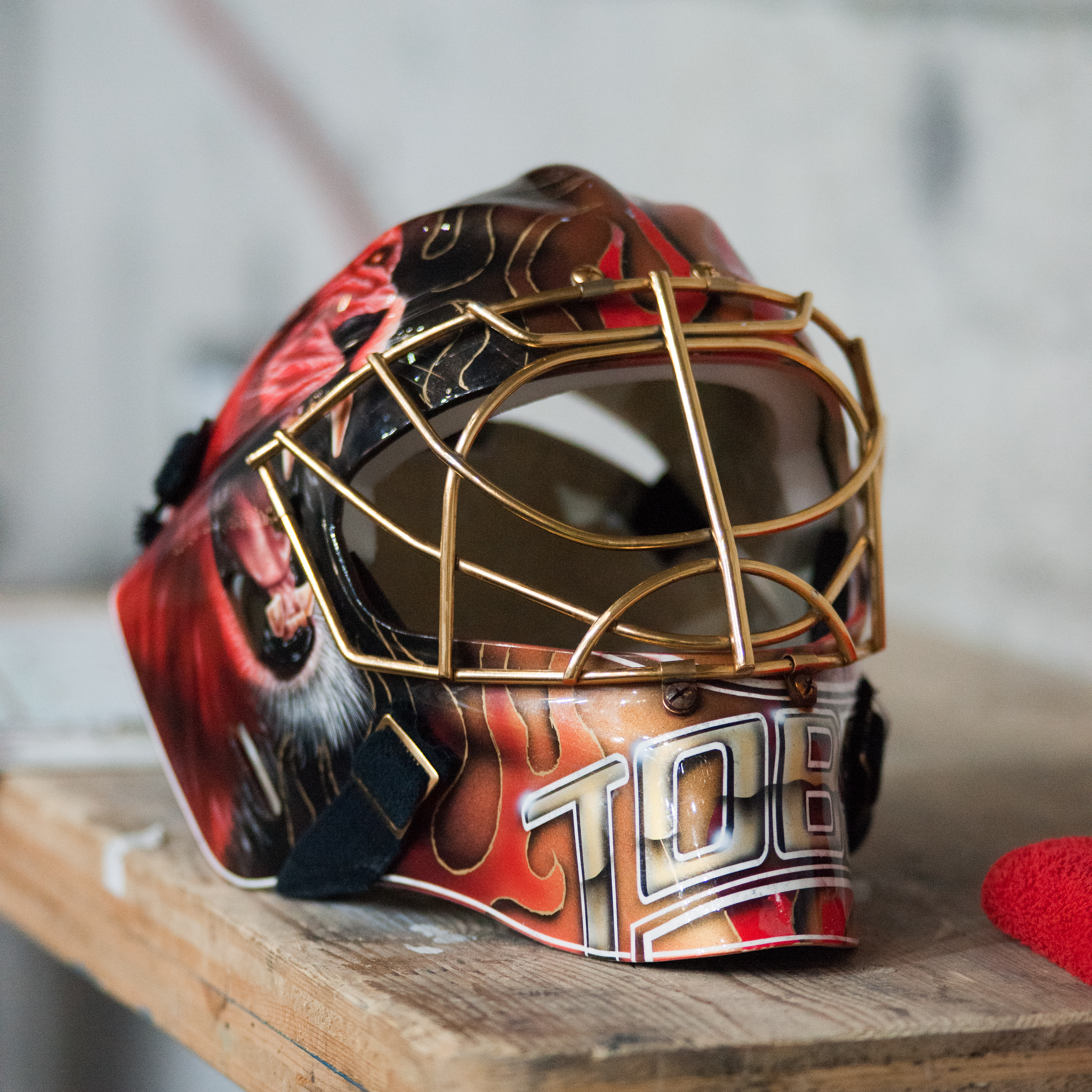 The making of this document was supported by Wikimedia CH.(Submit your project!) For all the files concerned, please see the category Supported by Wikimedia CH.